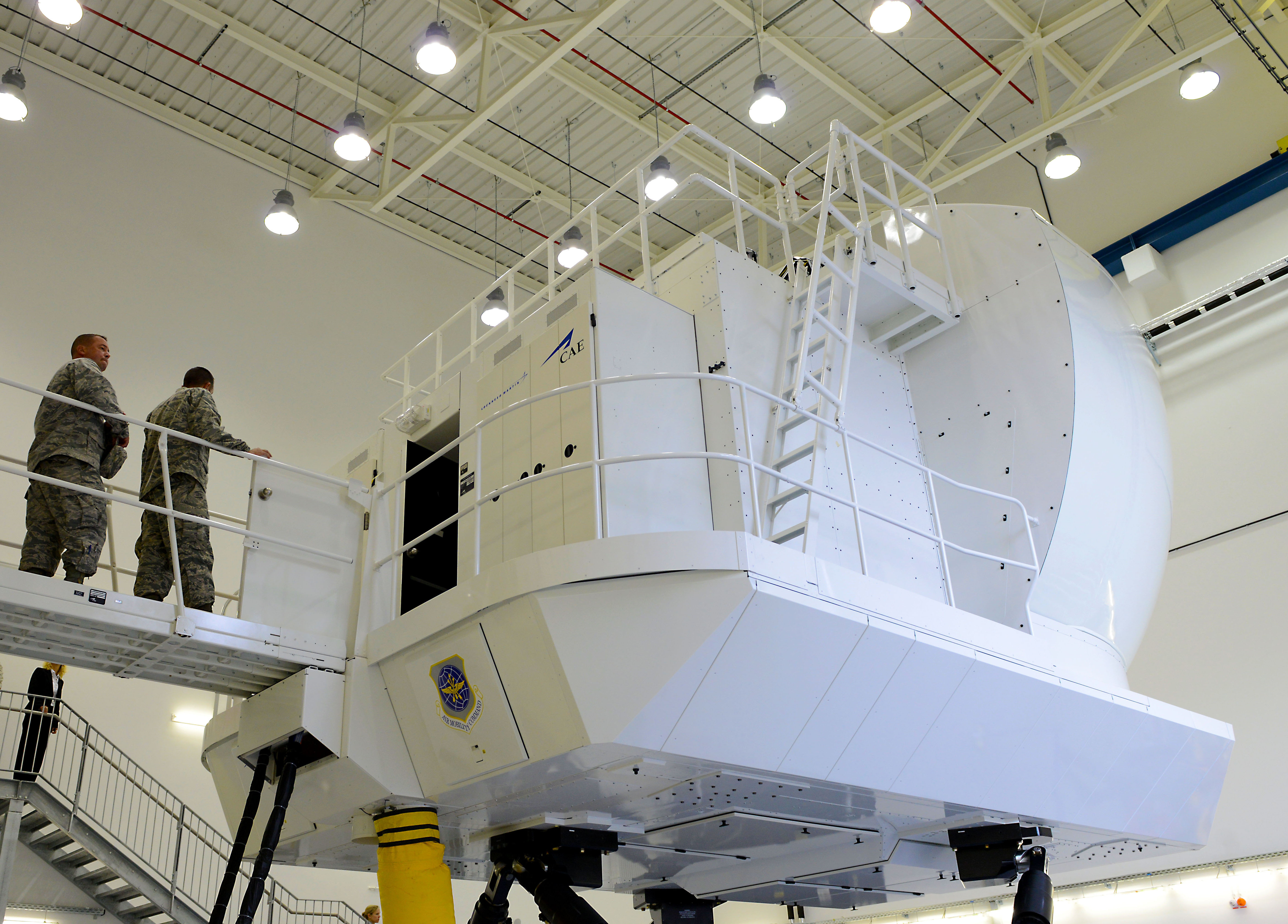 Members of the Kaiserslautern Military Community tour the new C-130J Super Hercules Flight Simulator facility Aug. 24, 2015, at Ramstein Air Base, Germany. The simulator will allow maintenance personnel to practice engine-run training and memorization with the cockpit for integration with flightline operations. (U.S. Air Force photo/Senior Airman Timothy Moore) Ramstein unveils C-130J flight simulator By Senior Airman Timothy Moore, 86th Airlift Wing Public Affairs / Published September 01, 2015